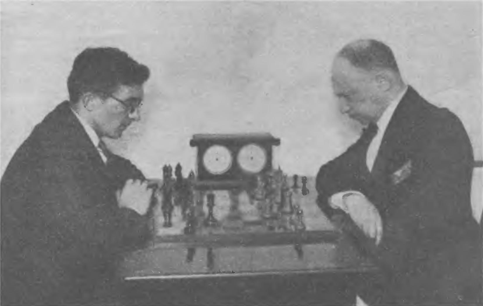 C. Torre - S. Tartakower, Moscow 1925 chess tournament, 5nd round (15th november)